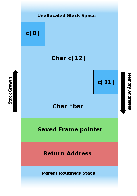 Image showing program stack before buffer overflow